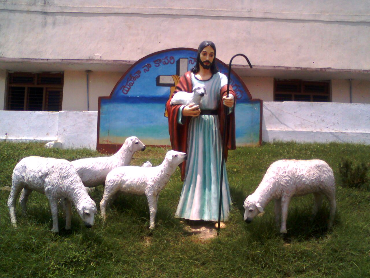 Statue of Jesus at Beach road in Bheemunipatnam, Andhra Pradesh